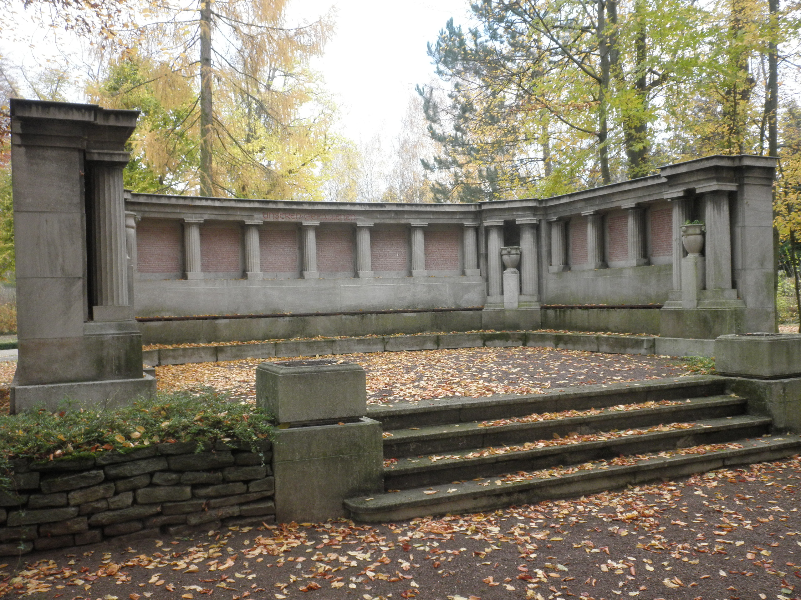 Monument for Victims of World War I. in Köthen (Anhalt)